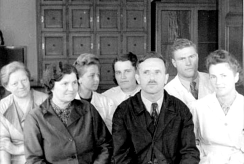 Front row Adelheid and Ludwig Kofler (1891-1951) - Back row 2nd from left: Maria Brandstätter